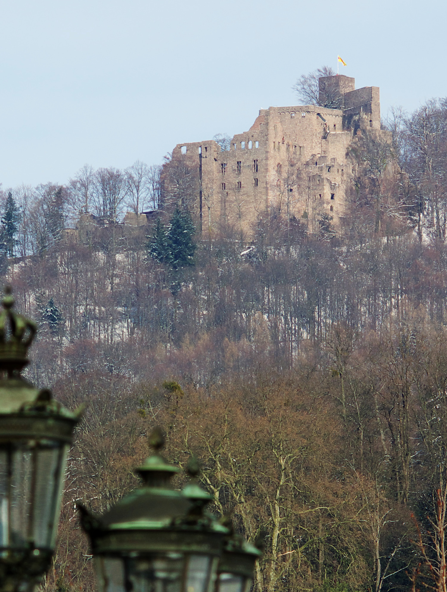 Hohenbaden Castle near Baden-Baden